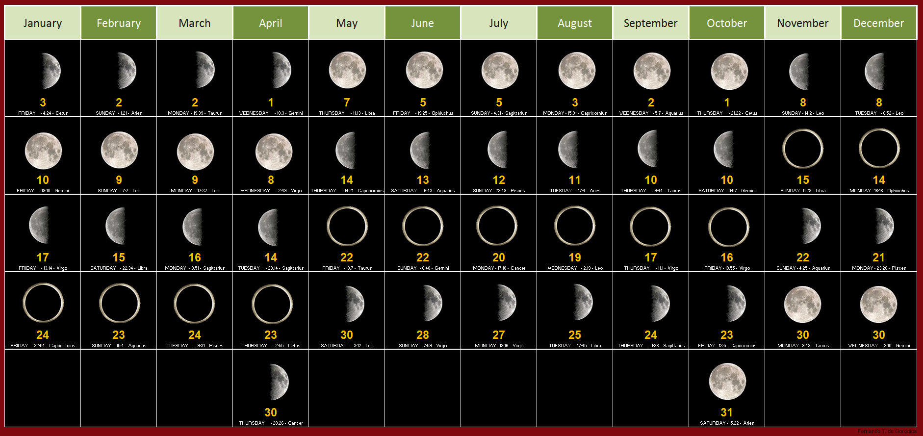 2020 ANUAL LUNAR CALENDAR. The 4 lunar phases for the year 2020 and for the northern observers. For each phase: day number of the month, day of the week, phase hour (GMT) and the constellation where is located the moon at that time.